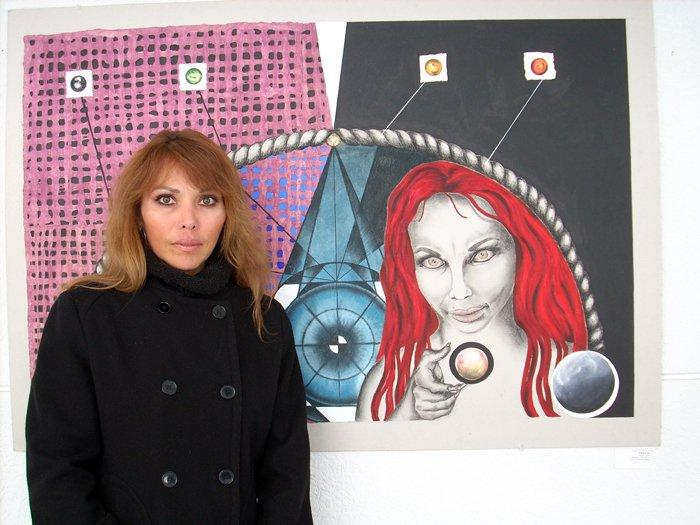 Citlalli Arreguín individual exhibition at Garros Galería